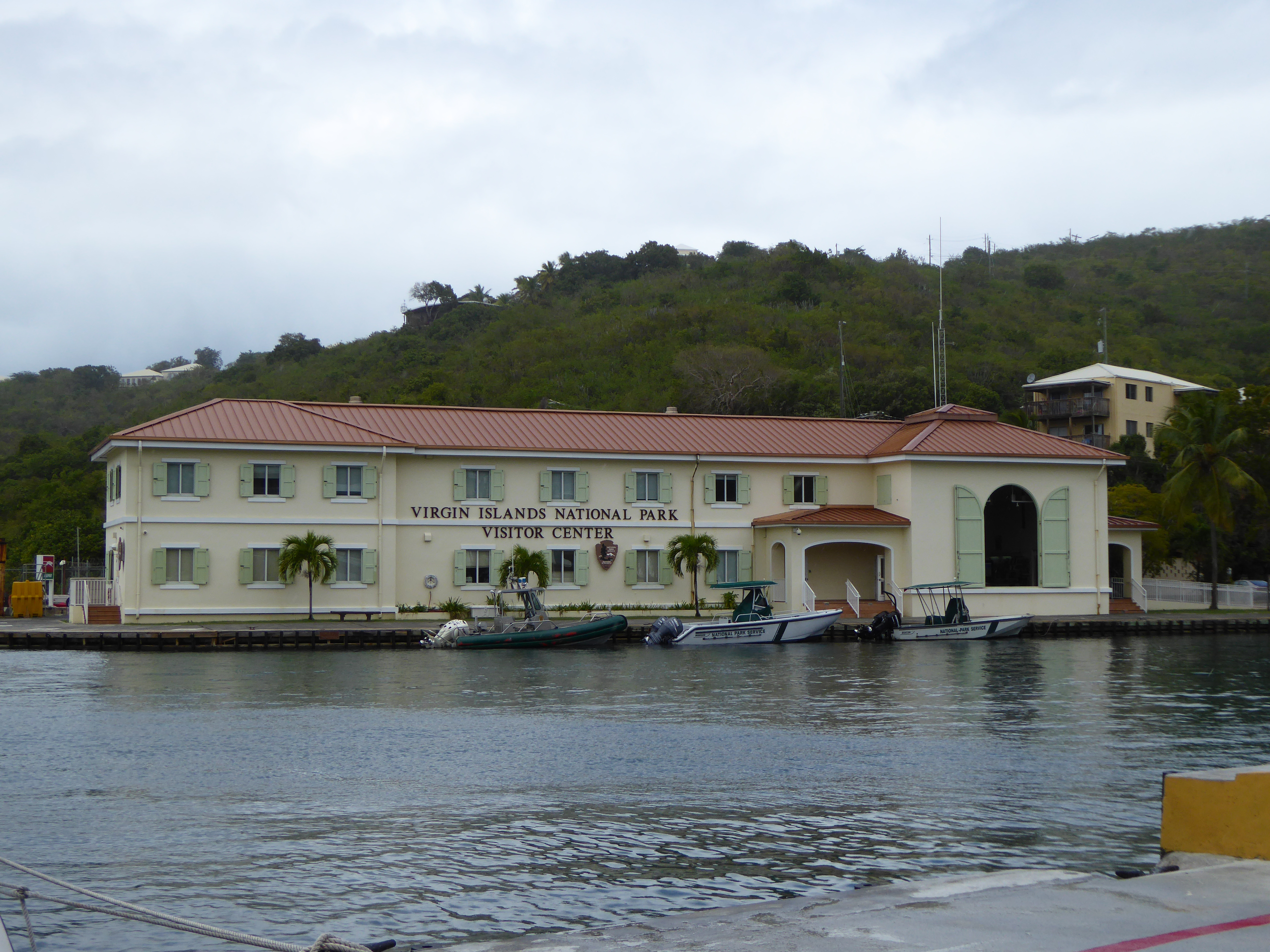 Headquarter of the Virgin Islands National Park